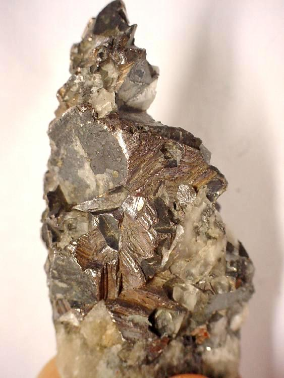 Bismuth Locality: Cobalt area, Cobalt-Gowganda region, Timiskaming District, Ontario, Canada (Locality at ) A really sharp and pretty native bismuth specimen with numerous embedded crystals showing very well-defined crystal faces for the locality, which normally produces more massive specimens. 7 x 3.5 x 2.5 cm